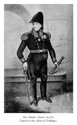 Admiral of the BlueSir Henry Digby, father of Jane Digby